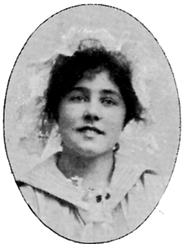 Image scanned from the book "Svenskt Porträttgalleri XX - Arkitekter, Bildhuggare, Målare m.fl. " ("Swedish Portrait Gallery XX - Architects, Sculptors, Painters, ") published 1901